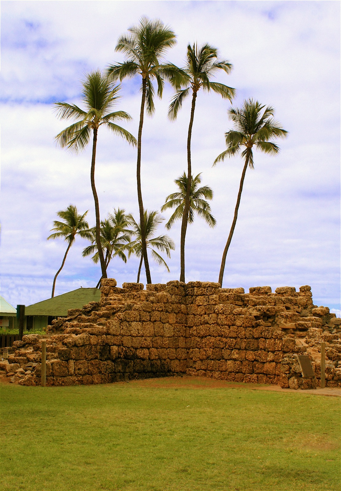 Palm trees back up the remnants of the old Lanaina fort. The fort was built when sailors from the whaling ships parked off shore shot canons into the town as a protest to the missionary's attempts to clean up their behavior by banning native women from visiting their ships. The fort was built to imprison the rowdy sailors.